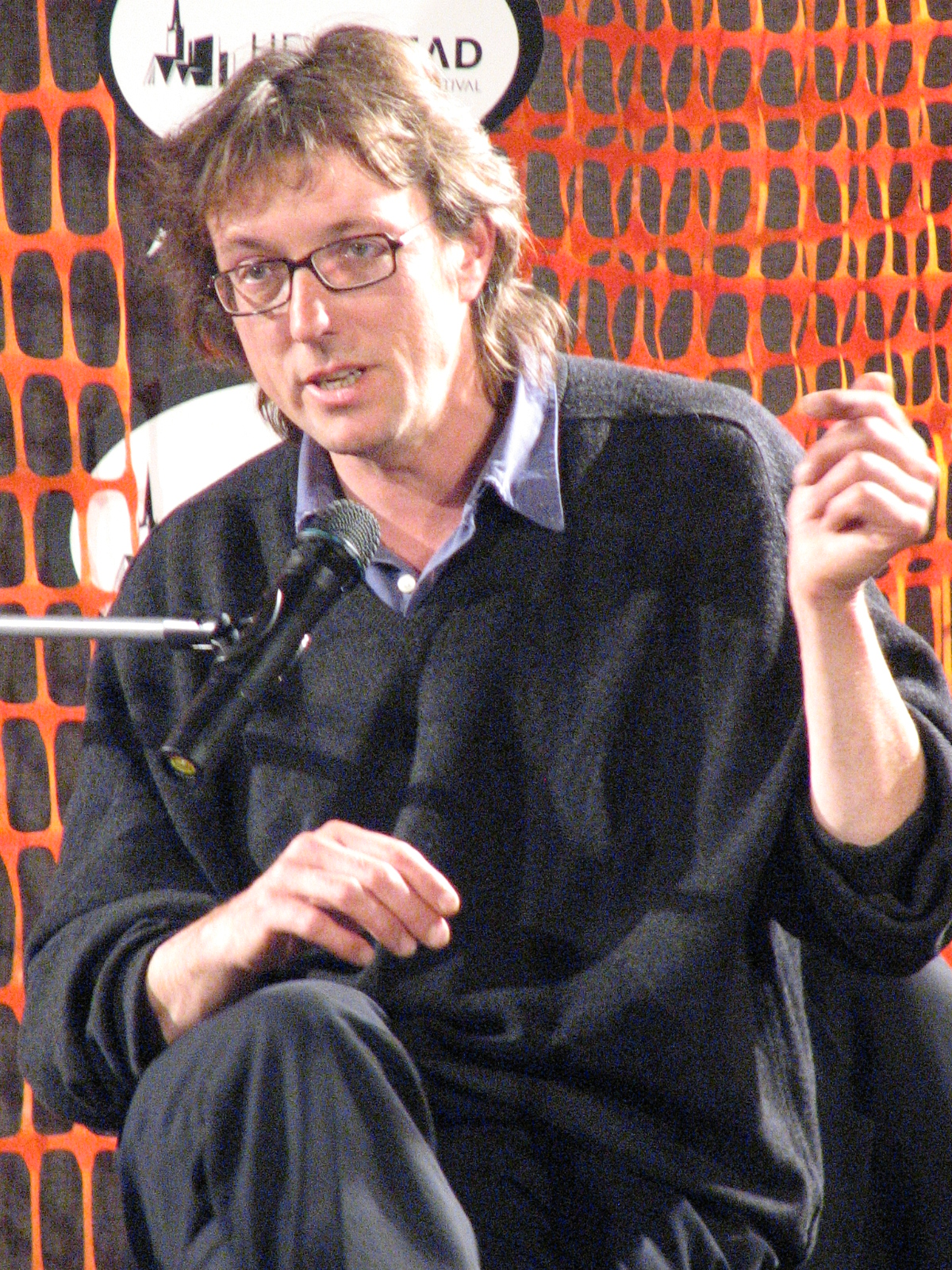 Jason Goodwin performing in literature festival HeadRead